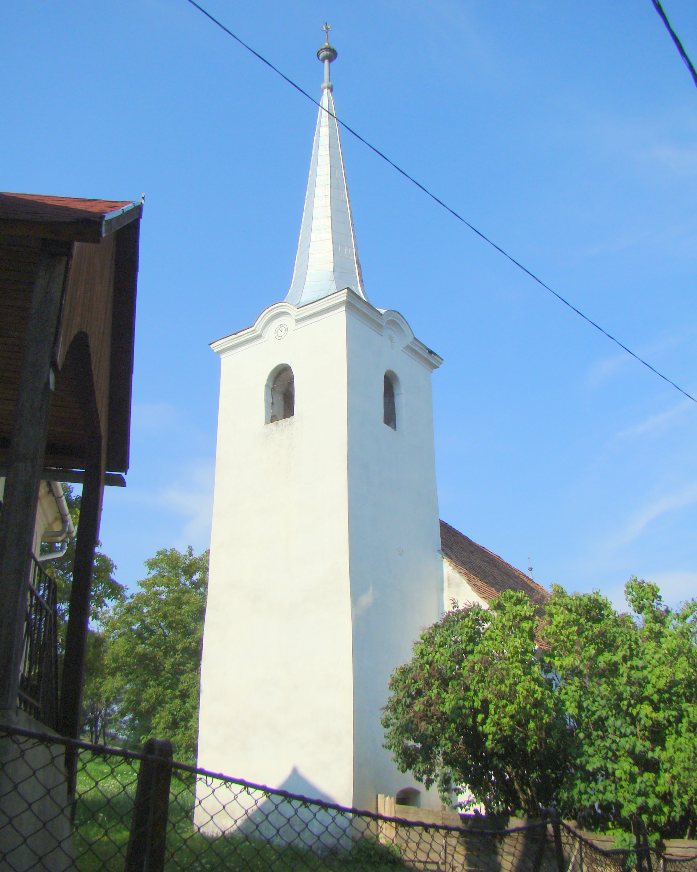 Reformed church in Mătișeni, Harghita County, Romania